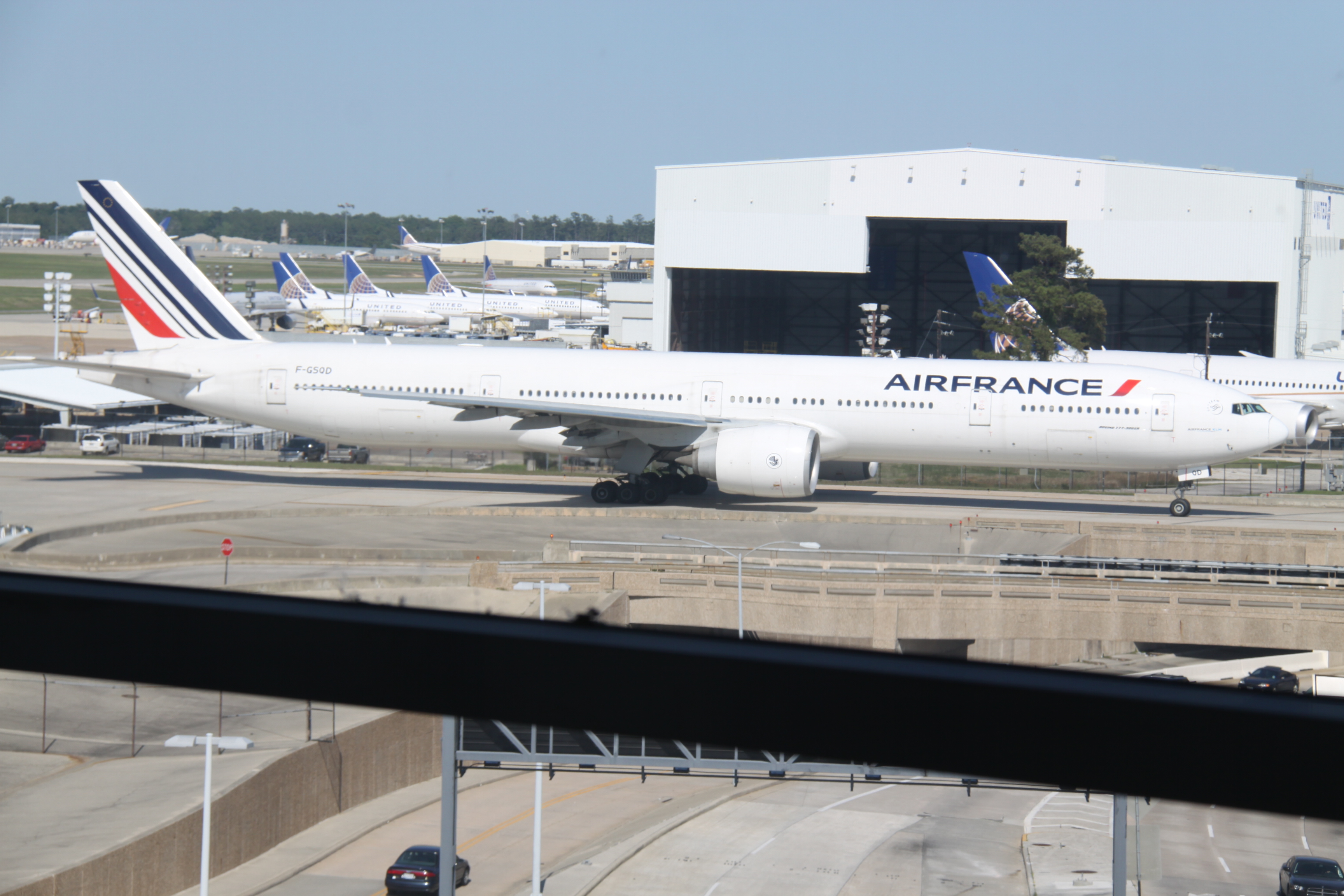 At Houston - George Bush Intercontinental